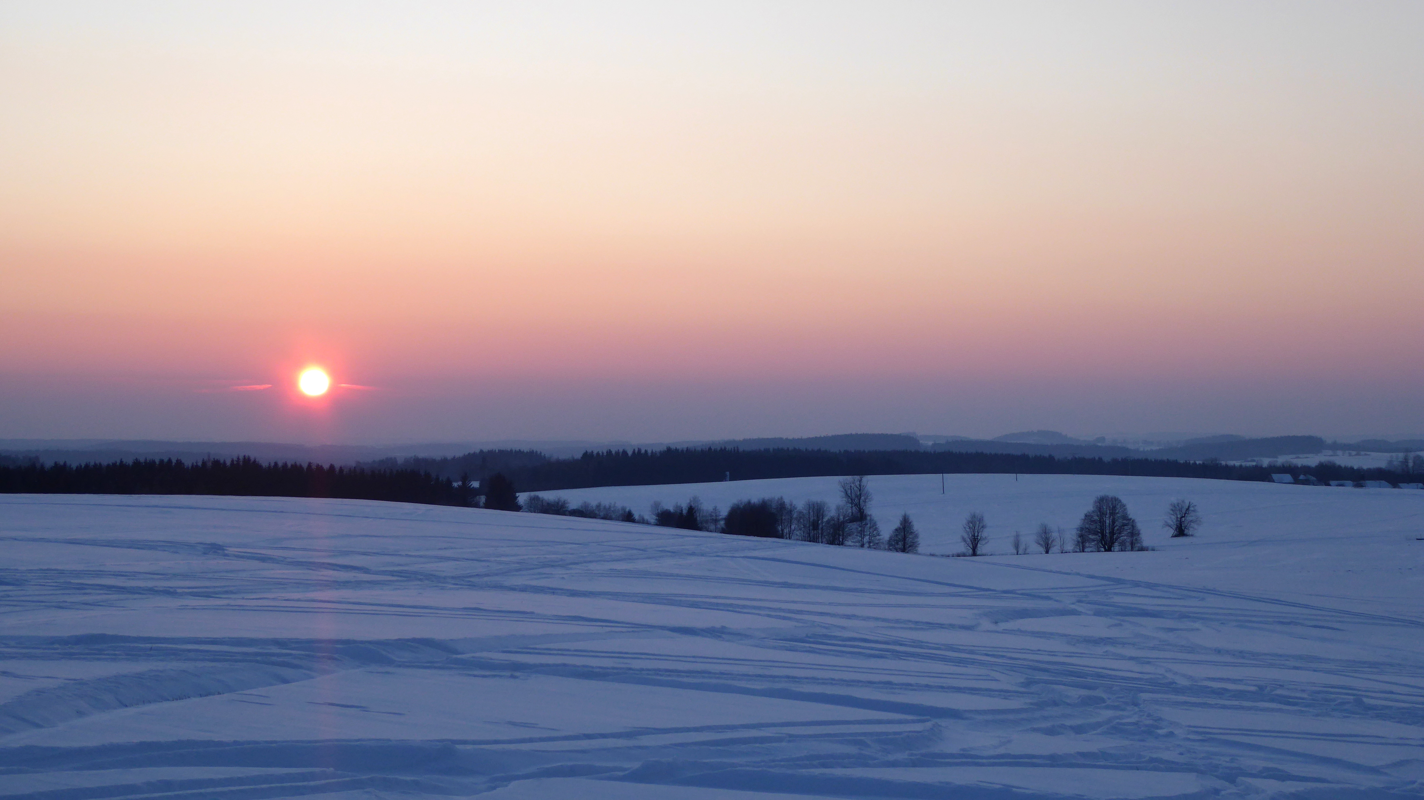 Snowy meadows below the summit with the geographic name "U oběšeného" on the cadastral area of "Svratouch". When snow is enough, a slopes of hill are used for classic skiing. In the notch of the terrain are trees and shrubs in the springfield of "Chlumětínský" brook. View from the top roughly to the southwest at sunset, in the direction of the village "Chlumětín". Locality of "Kameničská" highlands in the Protected Landscape Area "Žďárské" hills on territory of the Czech republic. Photo-location: Czechia, Pardubice Region, the village of "Svratouch".